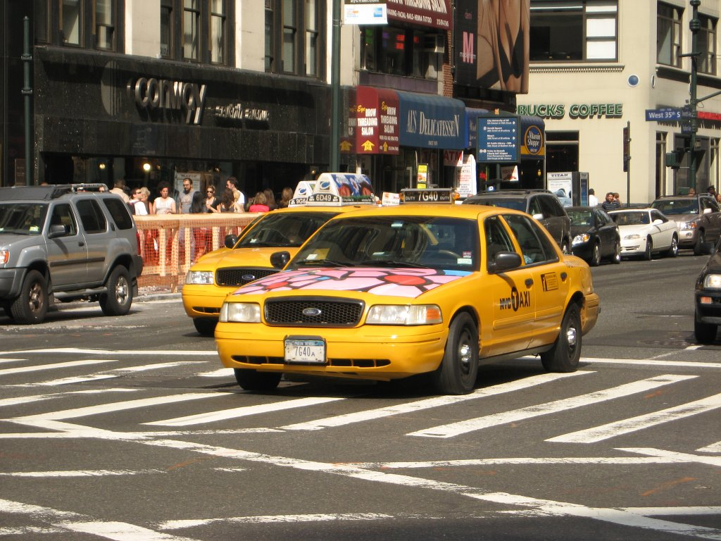 A taxi in the new NYC TAXI scheme with the flower cover.